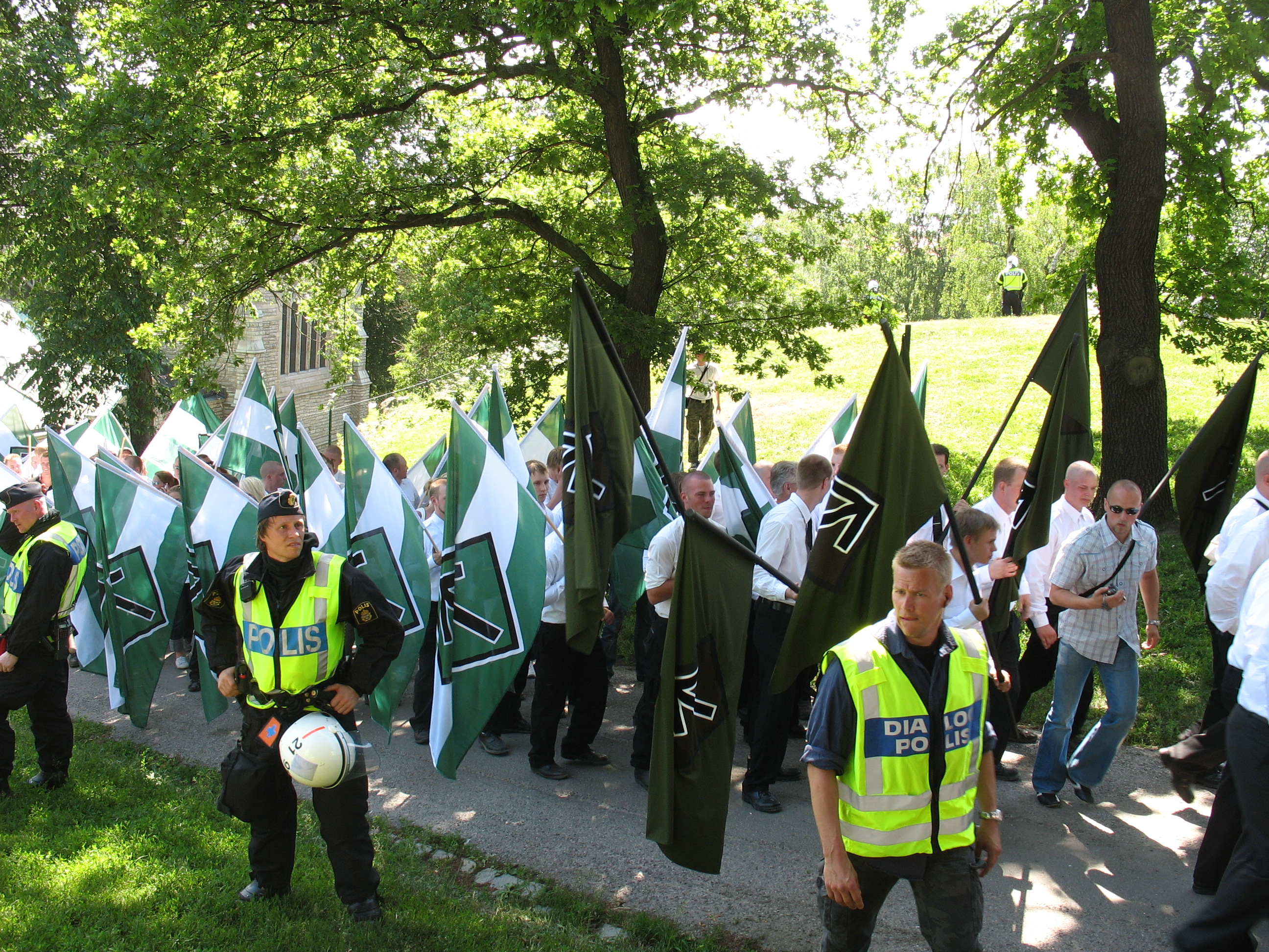 Members of the neo-Nazi organization Swedish Resistance Movement (Svenska motståndsrörelsen) taking part in a nationalist demonstration in Stockholm on National Day. Riot police are escorting the demonstrators in order to ward off violent clashes between nationalist and far-left activists.